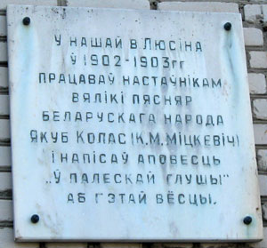 memorial label